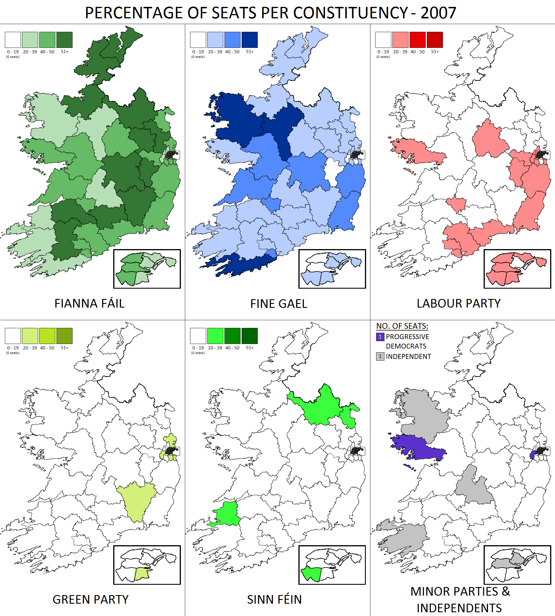 Graphical representation of the 2007 Irish general election results. Created by myself using data from Wikipedia and literary sources.